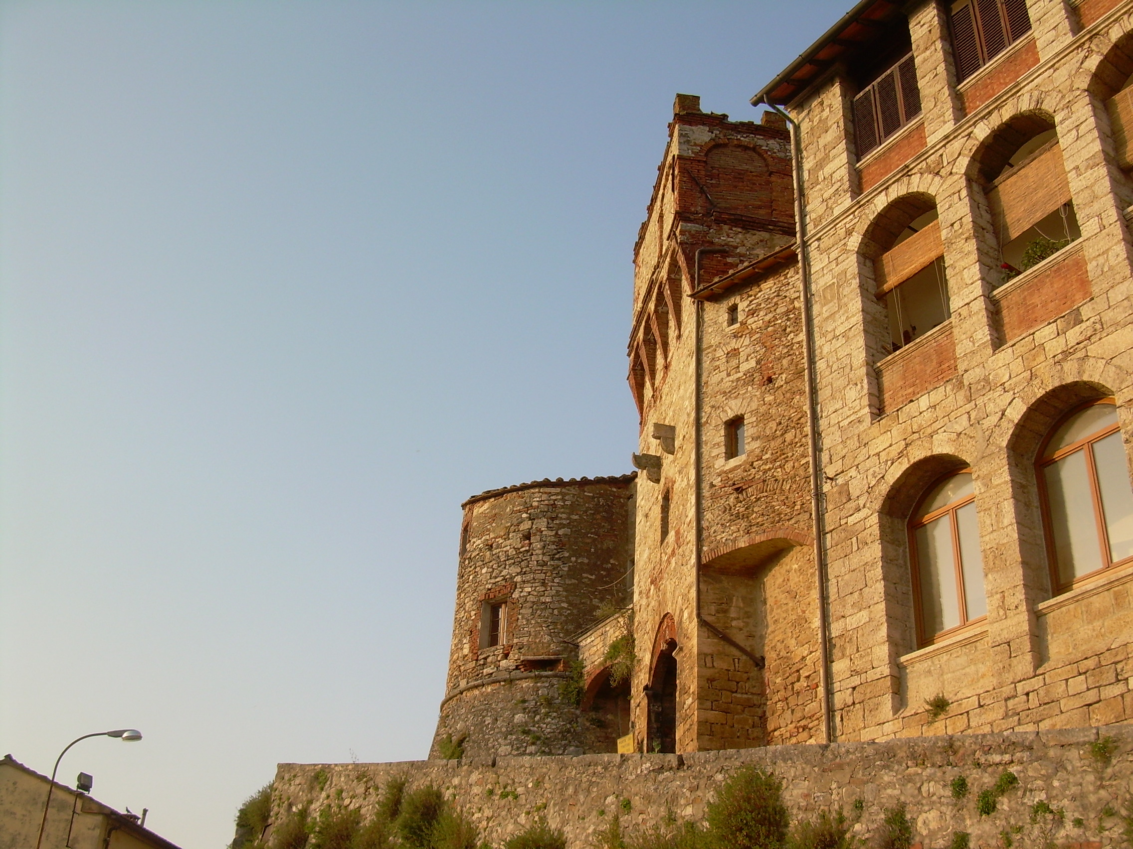 Porta Dei Tintori in Rapolano Terme, 14th Century